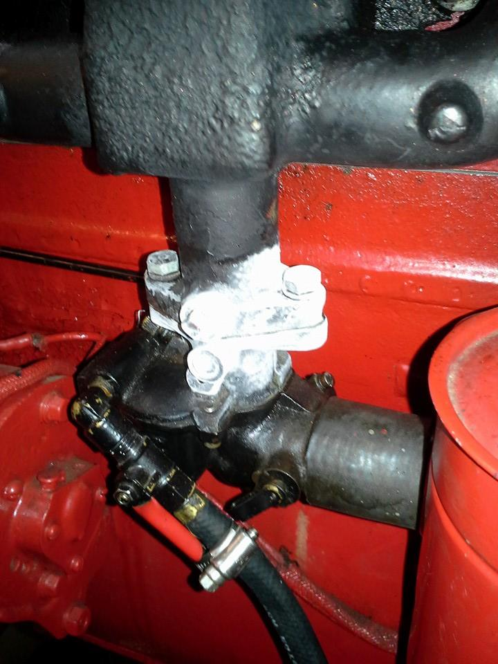 A Zenith 161X7 Carburetor on a 1948 Farmall Super A (Note: Condensation on the intake is due to a cold start with elevated humidity the day the image was taken)